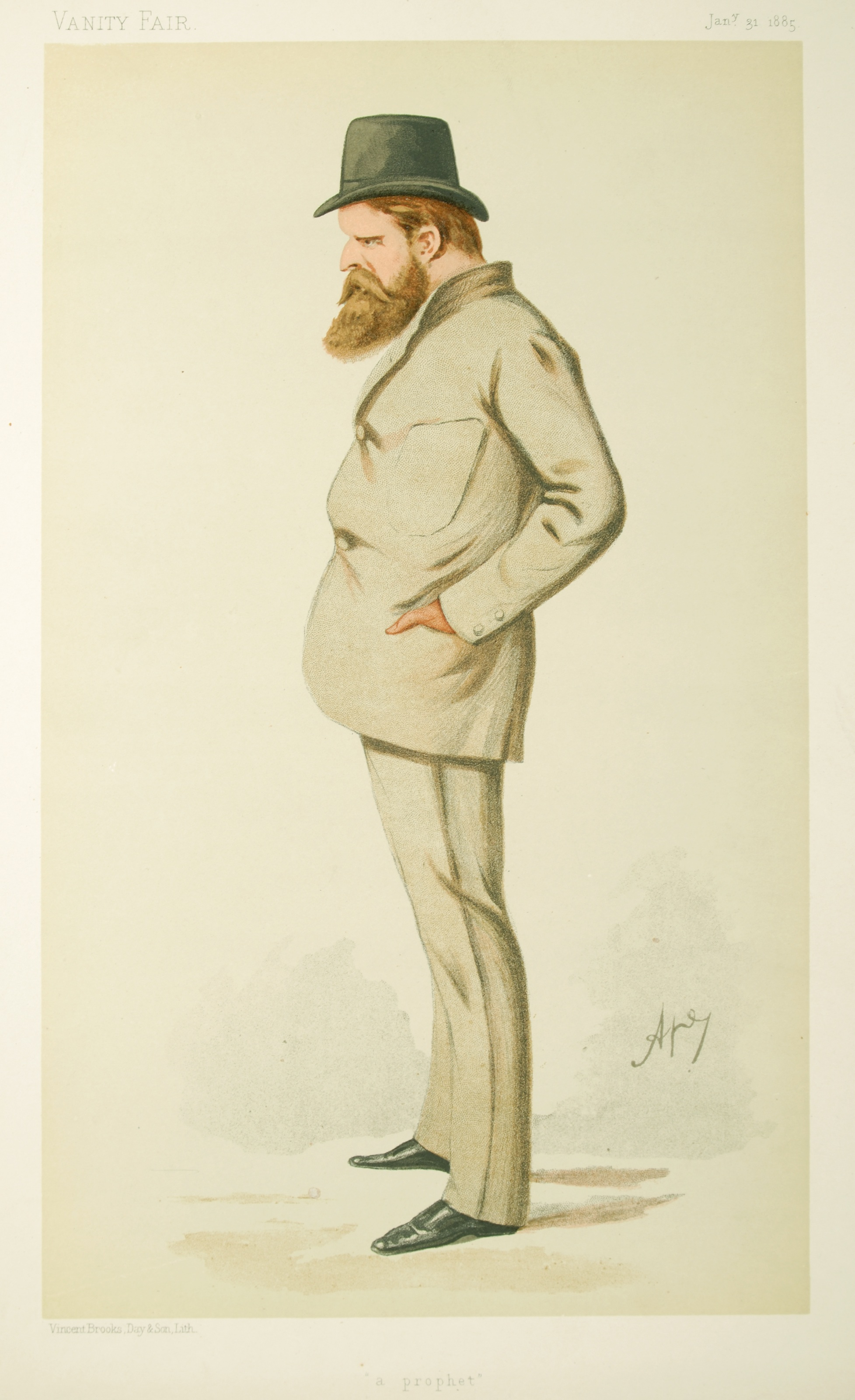 Caricature of Wilfrid Scawen Blunt (1840-1922). Caption read "a prophet".